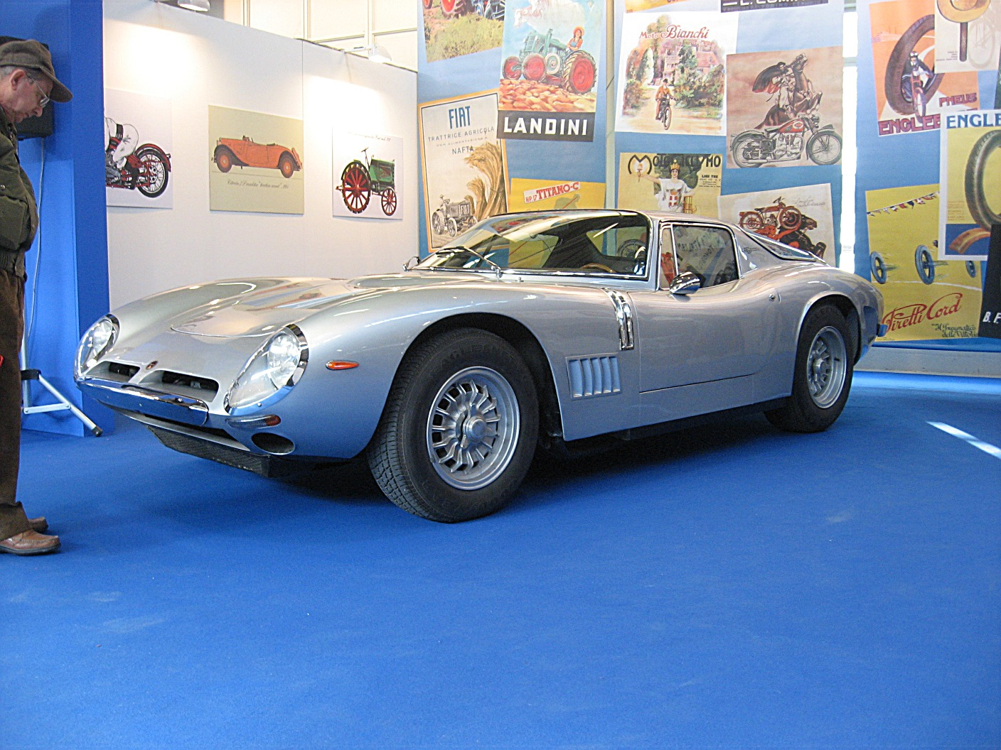 Subject:Bizzarrini 5300 GT Author:Luc106 Date:March 15th, 2007 Event:Old Timer Show 2008 Place/Country: Forlì, Italy I release all rights in the public domain.